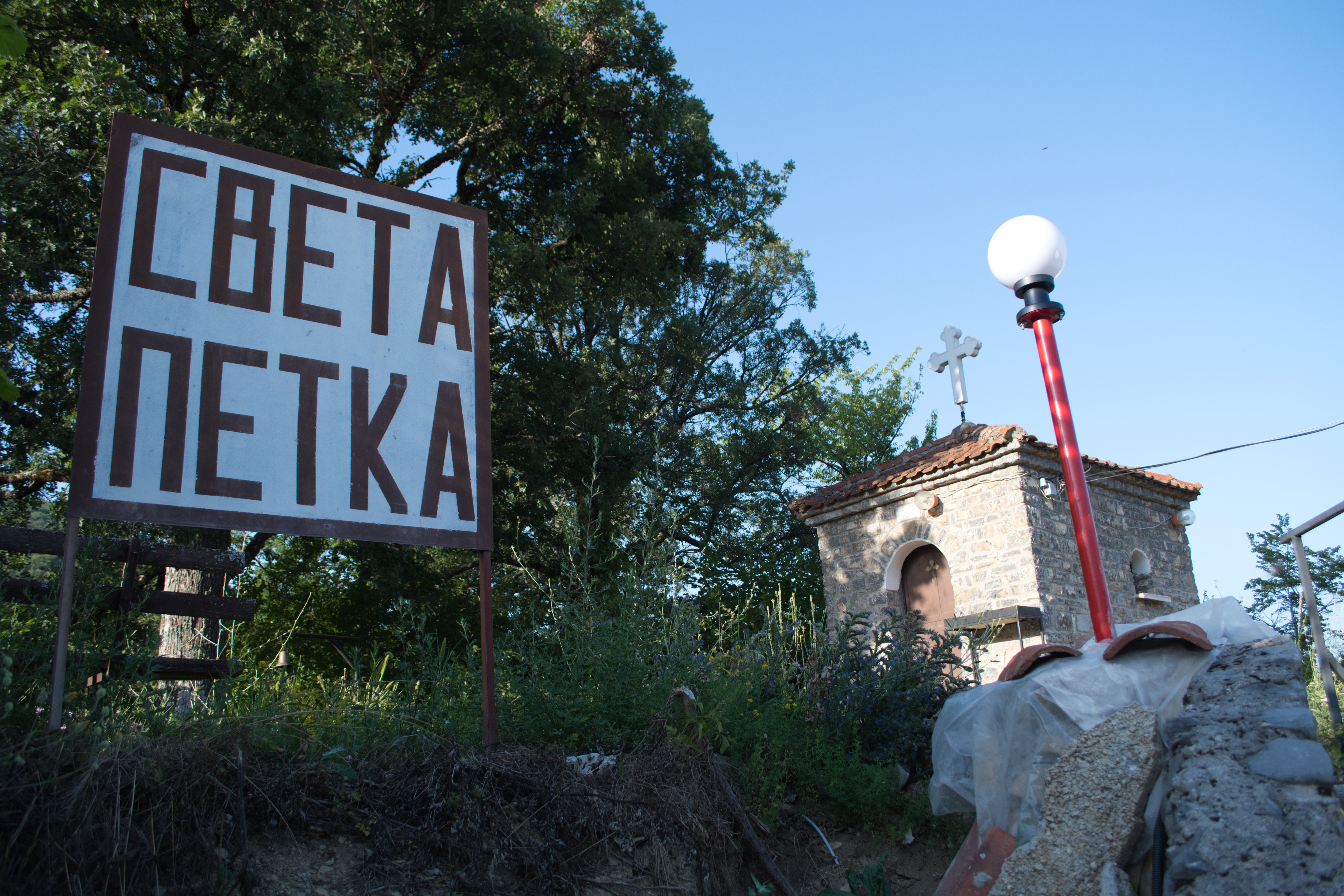 St. Petka Church in the Jablanica's mahala of Zborište